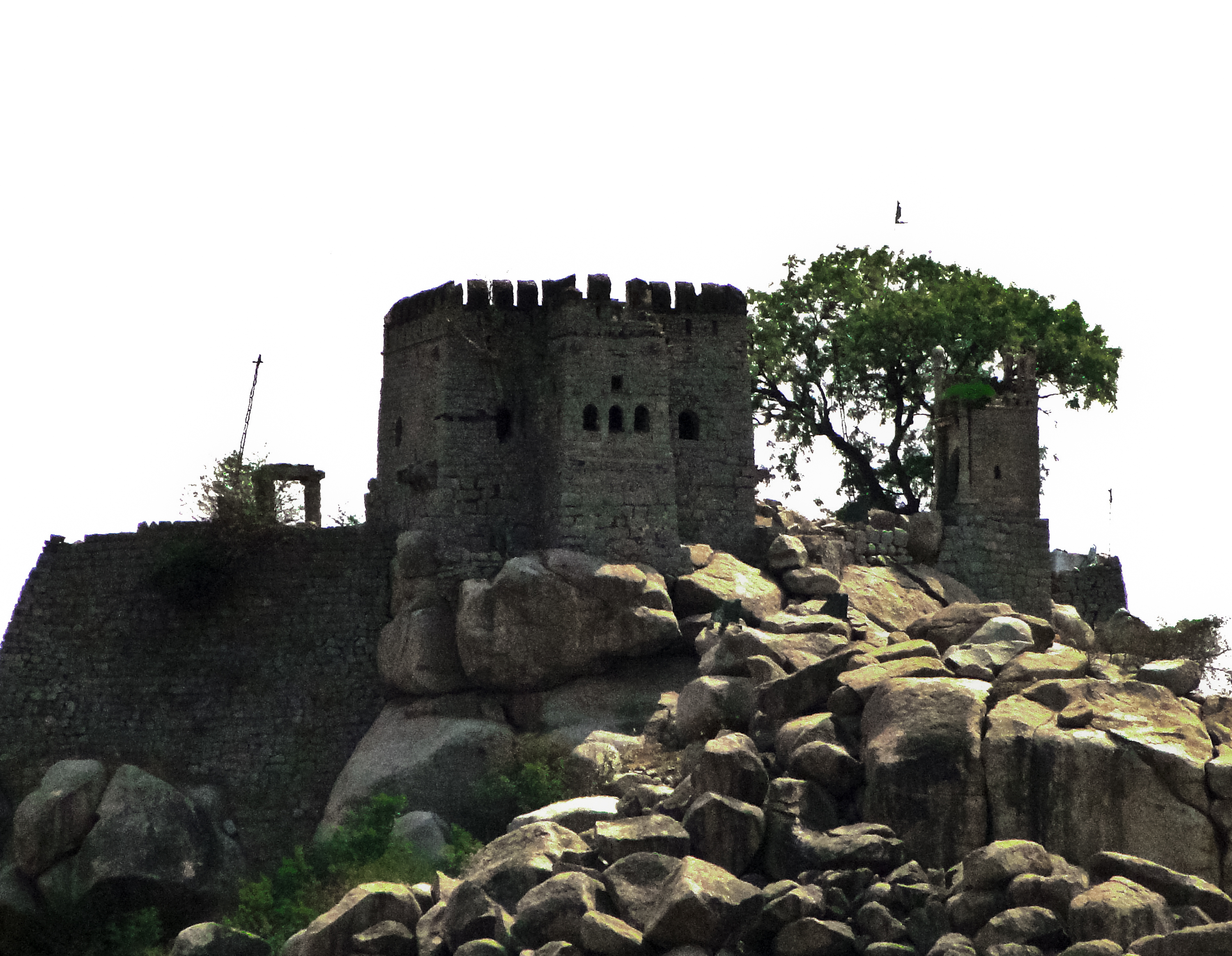 A monument on hill top